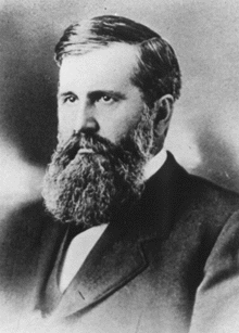 Colroado State Archives